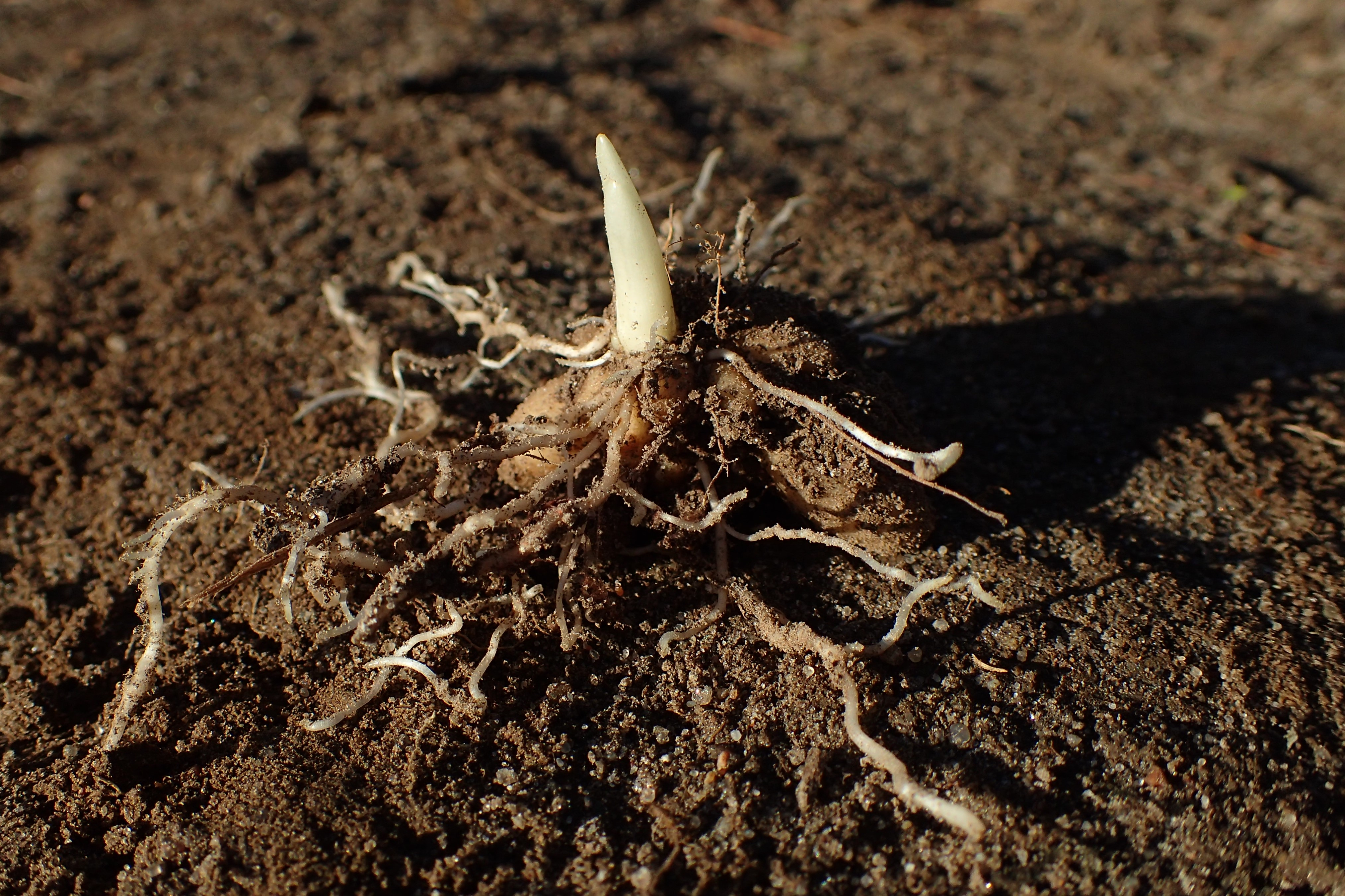 Ficaria verna subsp. verna. Underground organs: bulbs, roots and bud in November. Glinna near Szczecin, NW Poland